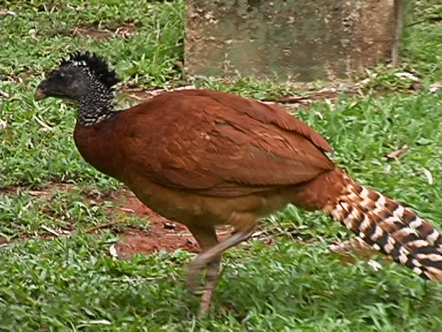 Great Curassow (Crax rubra) at Summit Park, Panama. Photographed on 5 April 2002